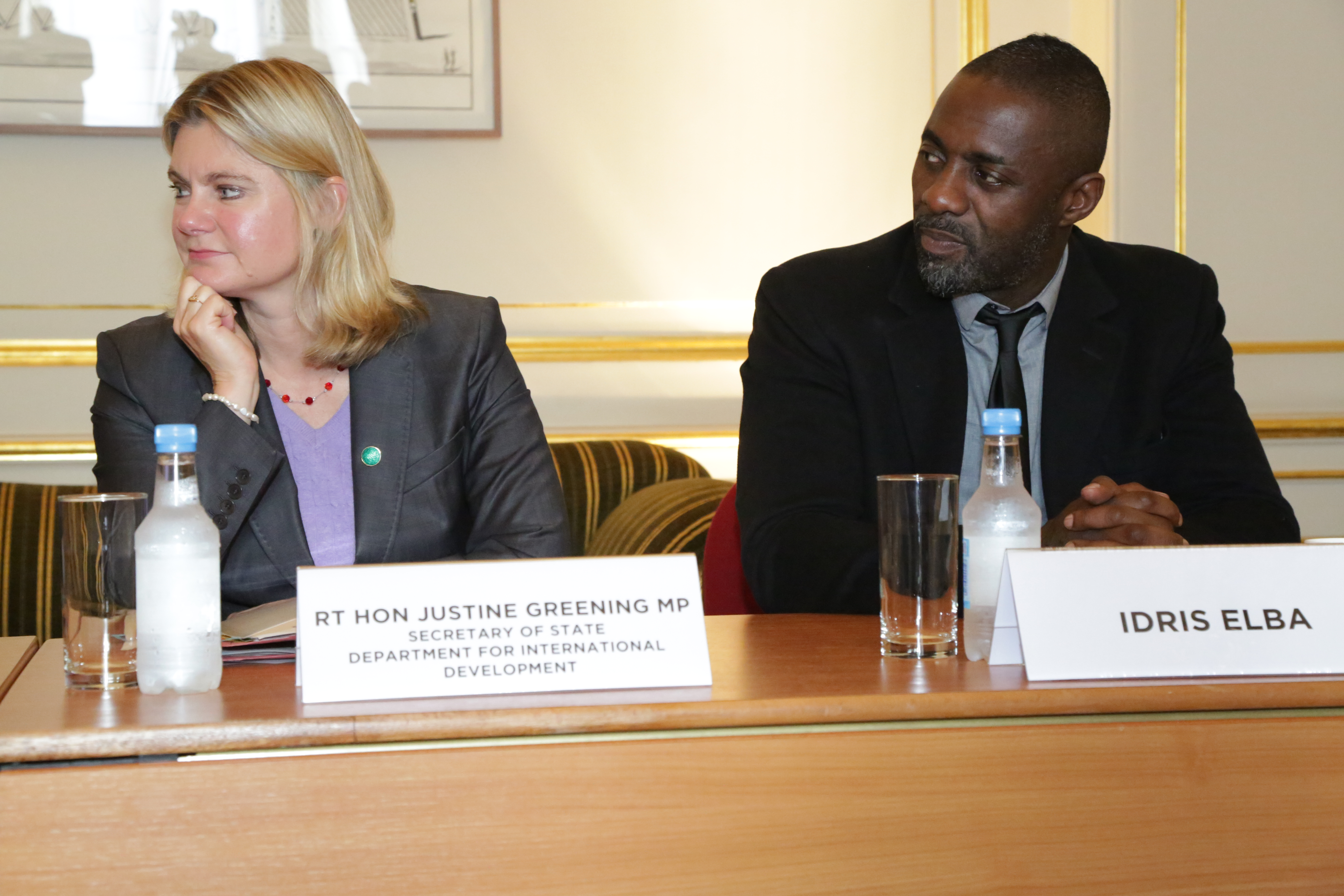 Justine Greening and Idris Elba join a meeting with diaspora representatives at the 'Defeating Ebola in Sierra Leone' conference in London. More information about the conference and the UK govenment's work to tackle Ebola: Picture: Jessica Lea/DFID